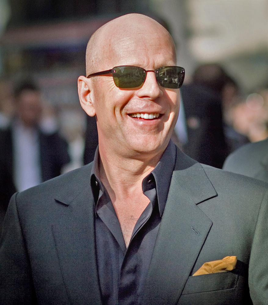 Bruce Willis at a Live Free or Die Hard (Die Hard 4.0) premiere at the Empire Leicester Square in London